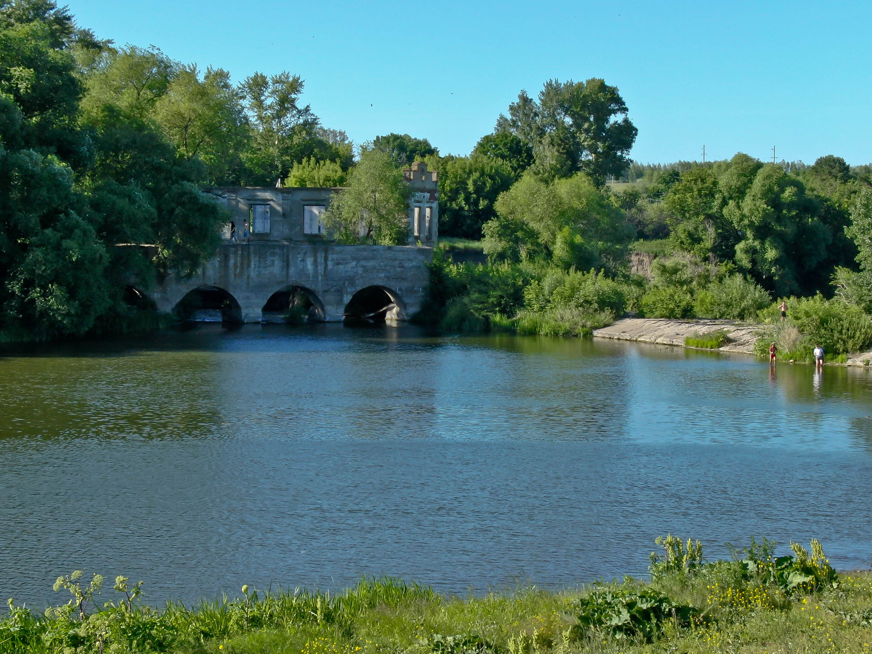 We appreciate usage of this photo including for commercial purposes while keeping ‘do-follow’ link to website and putting ‘ ’ as the author’s name.